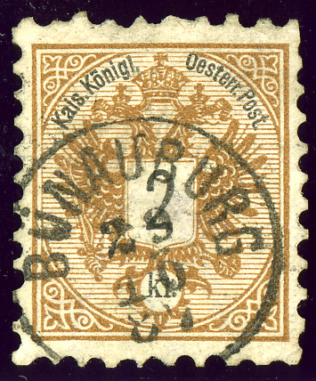 Austrian KK stamp, 2 kreuzer, cancelled BÜNAUBURG, Bohemia in 1887